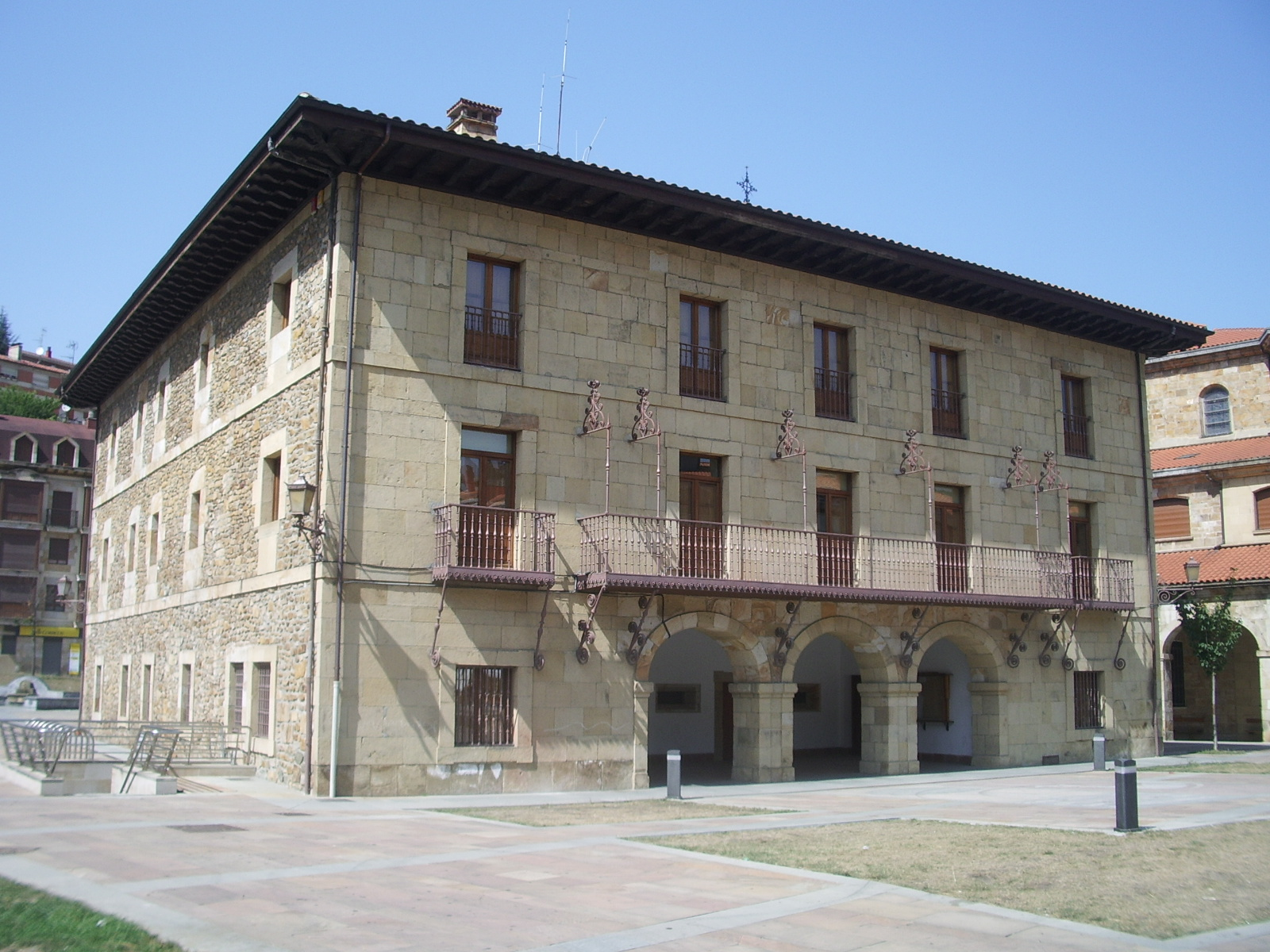 Town Hall of Legazpi, Guipuscoa, Basque Country, Spain